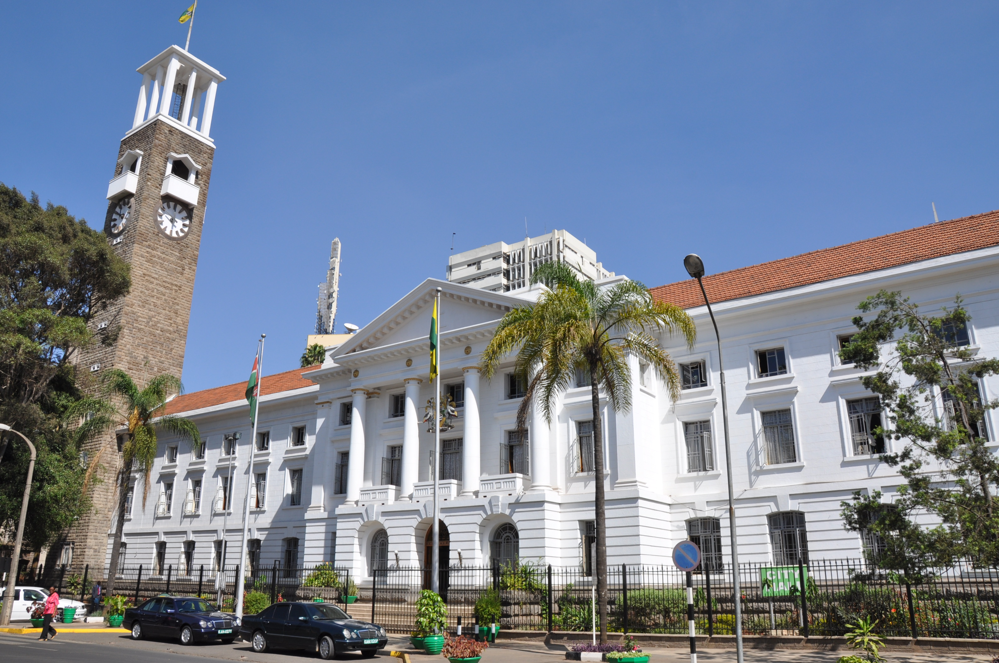 The old Nairobi Town hall was a wood and iron one-storey building. The Second Home of the Municipal Authority which it occupied from 1913 to 1923 was a wood and Iron building. A new town hall was built and completed in 1934. The new Town hall was opened in the same week as the Law Courts, opposite it, during the Silver Jubilee Celebrations in May 1935. Construction of a new complex commenced in 1950 and was completed in 1957 when it was officially opened. Until the opening of the Kenyatta International Conference Center (KICC), City Hall provided all the necessary facilities for confrences in Nairobi. The 165ft high clock tower, was the tallest building in Nairobi in 1957. In 1981, the Nairobi City Council completed a further 13 storey City hall Annexe